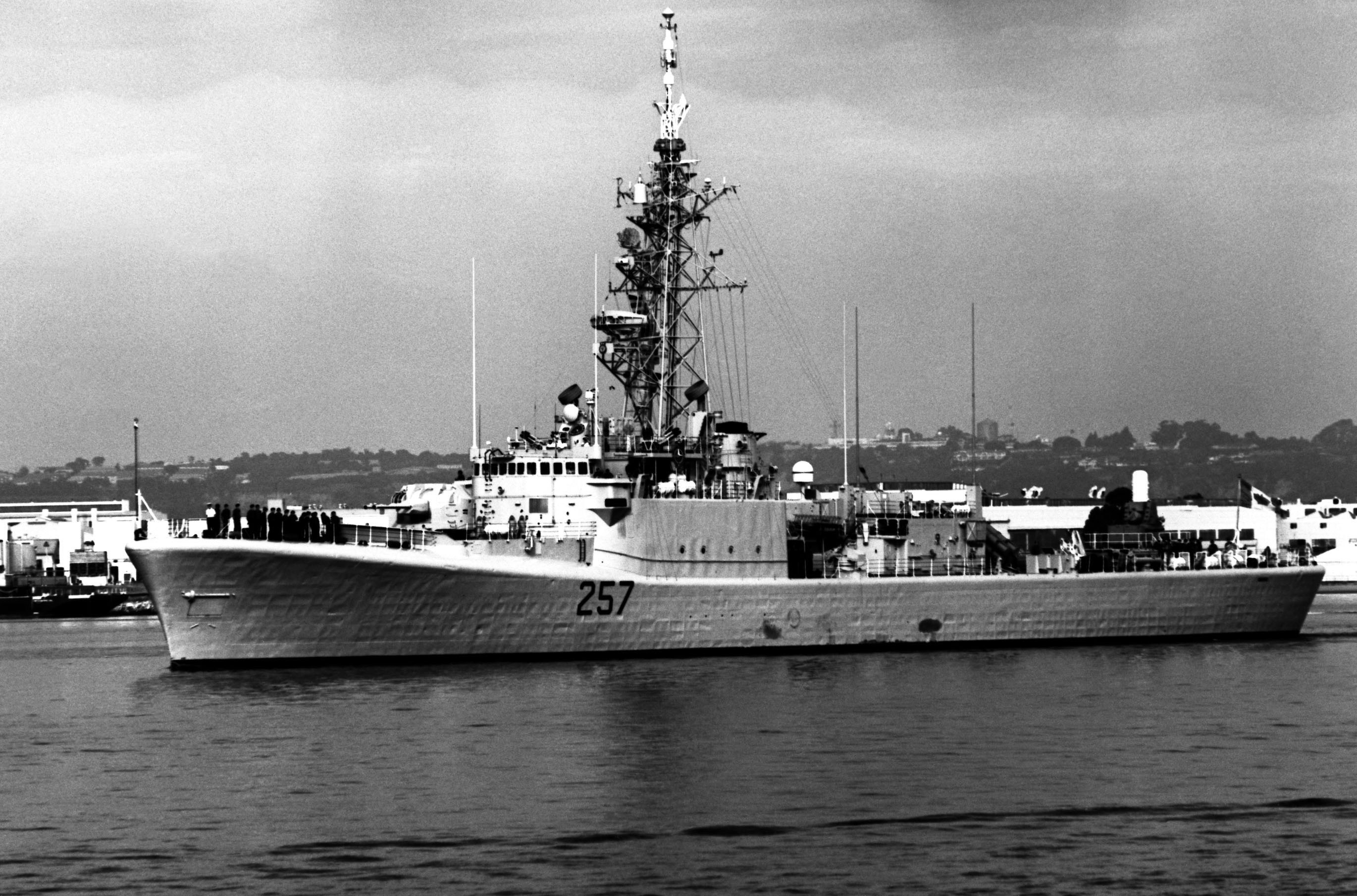 The Royal Canadian Navy frigate HMCS Restigouche (DDE 257) in 1992. Restigouche was to be deployed on Operation FRICTION, the Canadian Forces contribution to the 1990-91 Gulf War to relieve HMCS Terra Nova (DDE 259) in early 1991. She was refitted at CFB Esquimalt, however the war ended before her refit was completed. She had her Mk.112 ASROC octuple launcher and her Mk NC 10 Limbo ASW mortars removed and was fitted with 8 Harpoon anti-ship missiles and a Phalanx Close In Weapons System as shown in this photo.